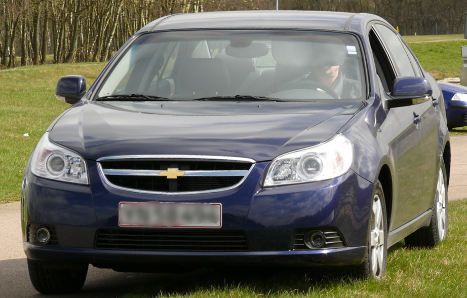 A Chevrolet Epica of Denmark.